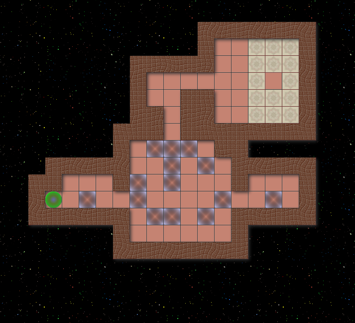 Space Sokoban screenshot